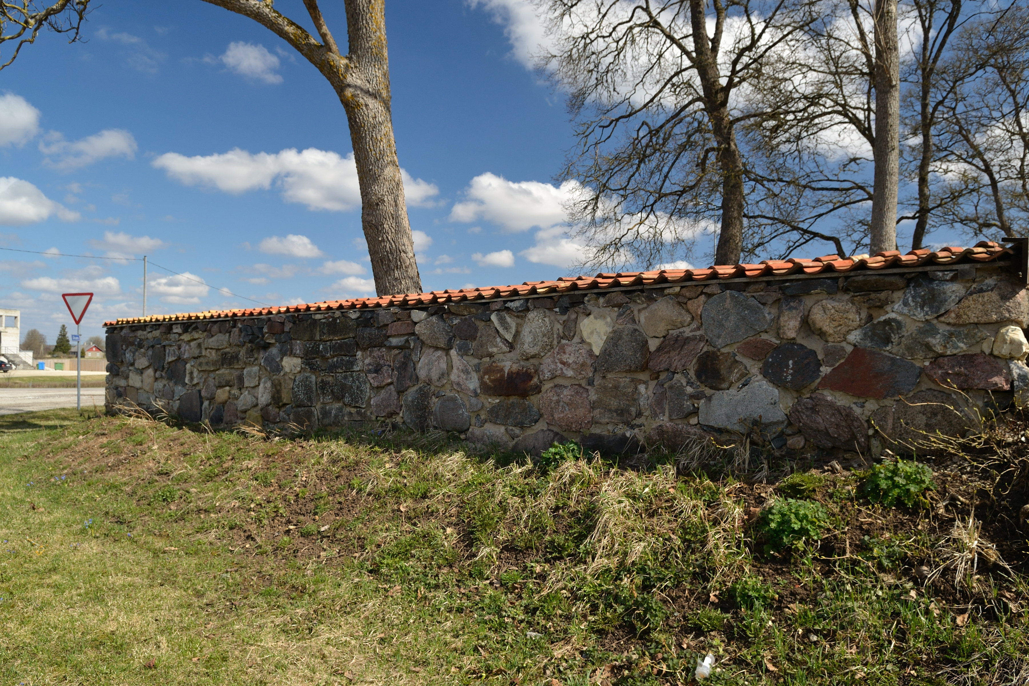 Järva-Peetri churchyard wall